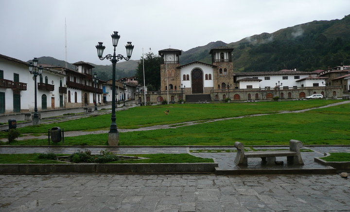 The Plaza de Armas of Chacas is unique in Ancash, this gives rise to the bullfight, the surrounding streets are cobblestone and the houses that surround it retains the classic two-water and beautiful balconies are adorned with fine carvings.